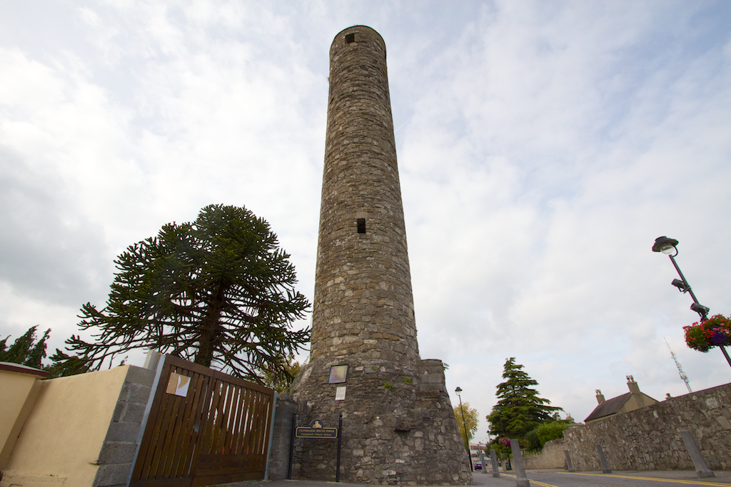 Clondalkin Round Tower